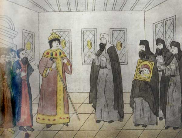 The Father of Tsar Michael (Patriarch Philaret) blessing his son and bride Eudokia Streshneva. 5 February 1626.